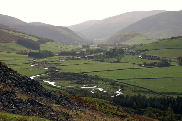 Middle reaches of the Manor Valley Looking from Cademuir Hill up the valley from the broader fields to the more confined areas where the hills drop steeply from either side.